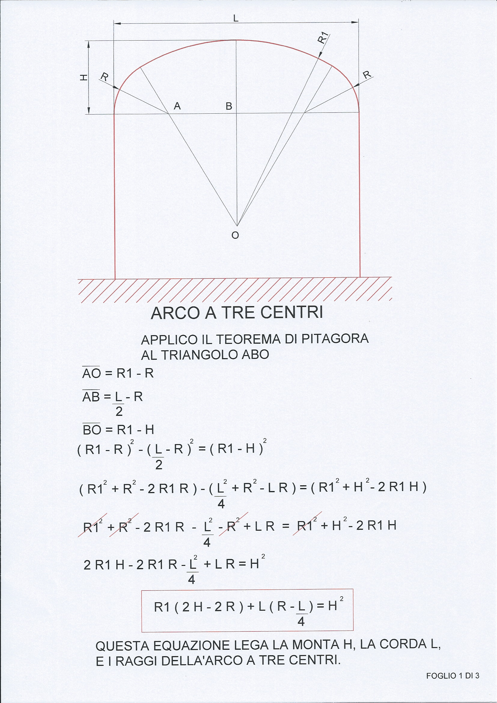 calcolo dell'ogiva